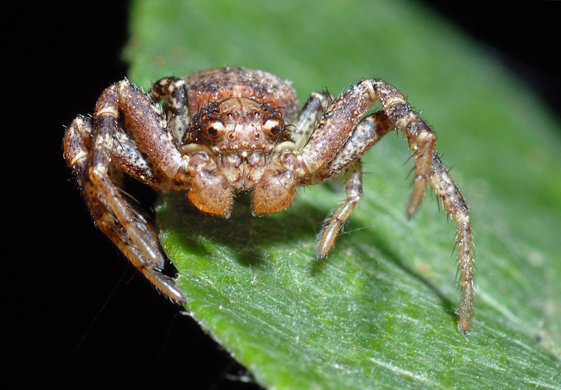 This image shows a 0.154 inch (3,9 mm) long crab spider of the species Ozyptila praticola. Thanks to Doc Taxon and Jürgen Peters for identifying this animal.